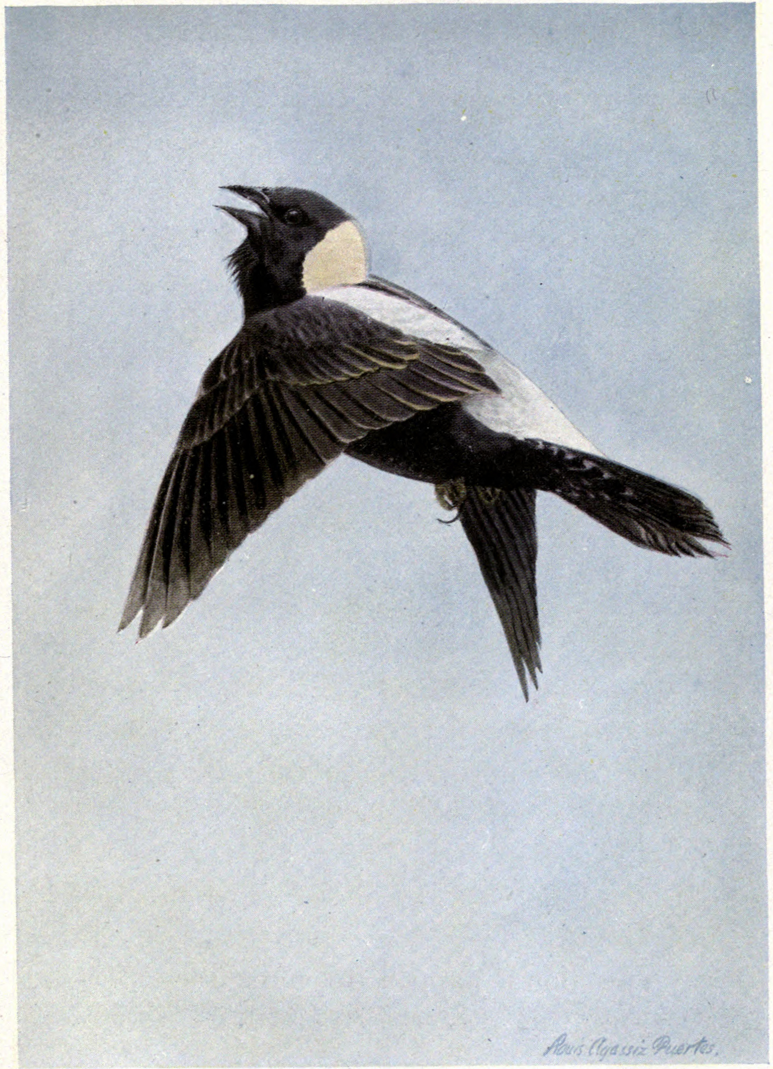 Illustration by Louis Agassiz Fuertes of a Bobolink (Dolichonyx oryzivorus), from The Burgess Bird Book for Children